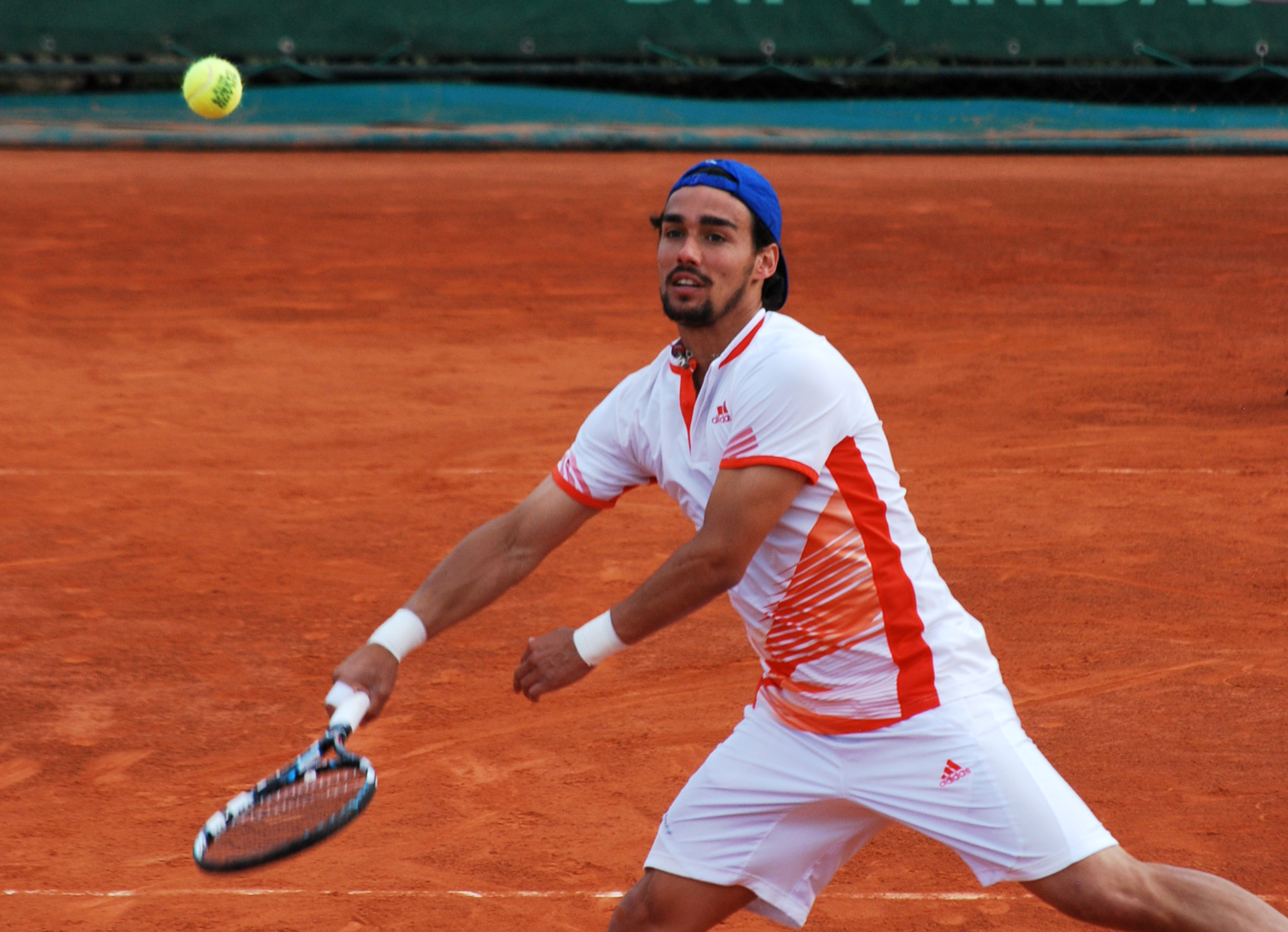 Fabio Fognini during his first round match with Simone Bolelli against Leander Paes & Alexander Peya. Paes & Peya won 6-1, 6-7, 6-3. Day 5 of Roland Garros 2012.